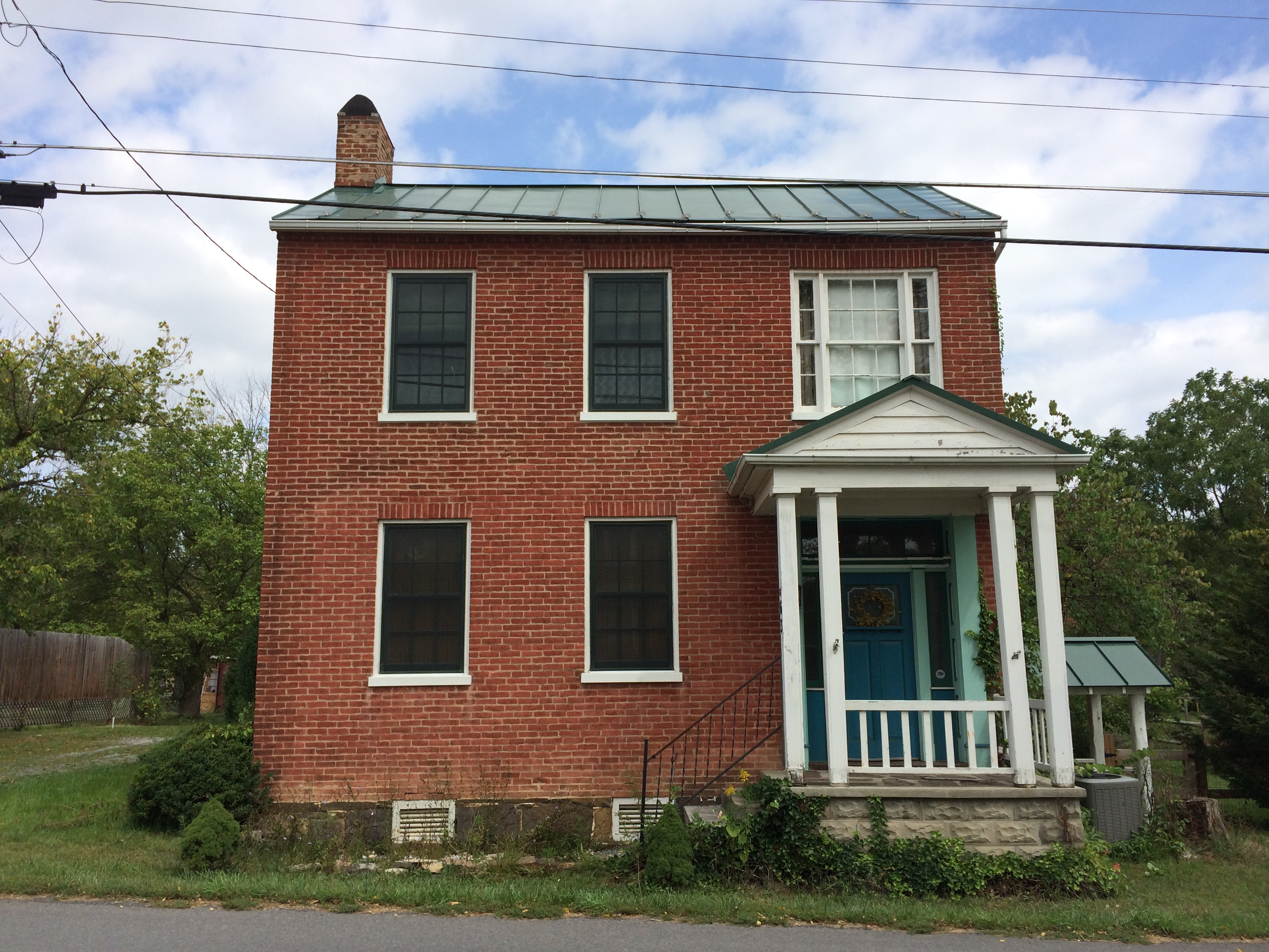 63 Springfield Pike (1860) is a mid-19th century residence along Springfield Pike (West Virginia Secondary Route 3) in Springfield, West Virginia, United States. Photographed by Quercus montana